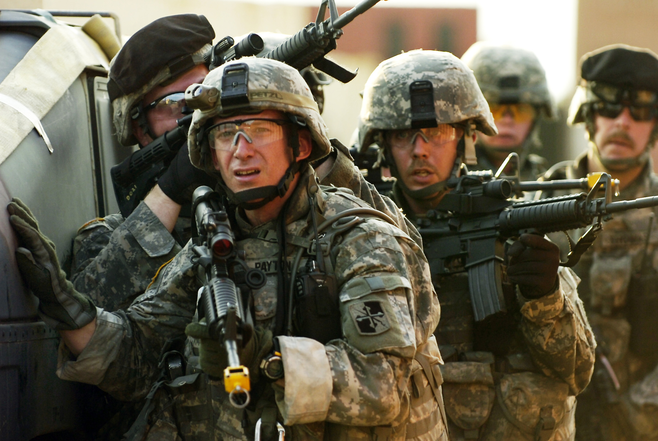 U.S. Army Soldiers from Charlie and Delta Company, 1st Battalion, 175th Infantry Regiment, Maryland Army National Guard combine efforts July 24, 2007, during a joint urban cordon and search exercise as part of the army readiness and training evaluation program in the mock city of Balad at Fort Dix, N.J. the Soldiers are preparing for a scheduled deployment to Iraq.